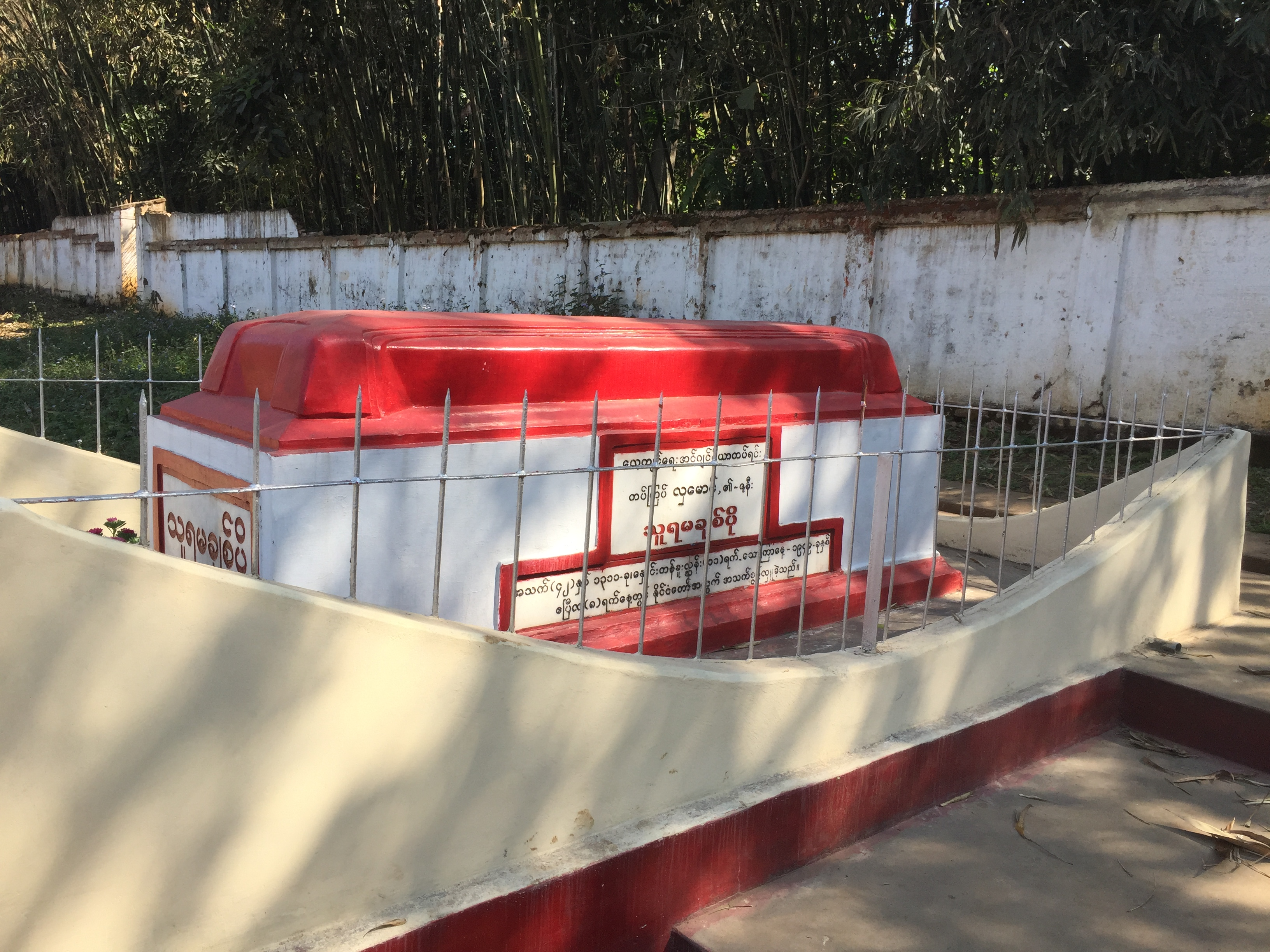 သူရမချစ်ပို အုတ်ဂူ၊ အာဇာနည်လမ်း၊ ထုံးဘို၊ ရပ်ကွက်ကြီး(၁) ပြင်ဦးလွင်မြို့။